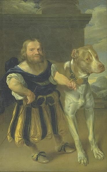 Picture title: The Elector of Saxony's Italian Dwarf, Giachomo Favorchi with Princess Magdalene Sibylle's Dog, Raro.